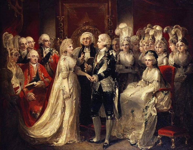 The wedding of George, prince of Wales, and princess Caroline of Brunswick officiated on 8 April 1795 in the Chapel Royal of St. James's Palace, London